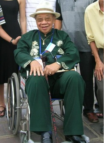 A picture of Trần Văn Khê with teachers from Vietnam during a tour ( this is a cropped picture, 6 people has been removed from it)